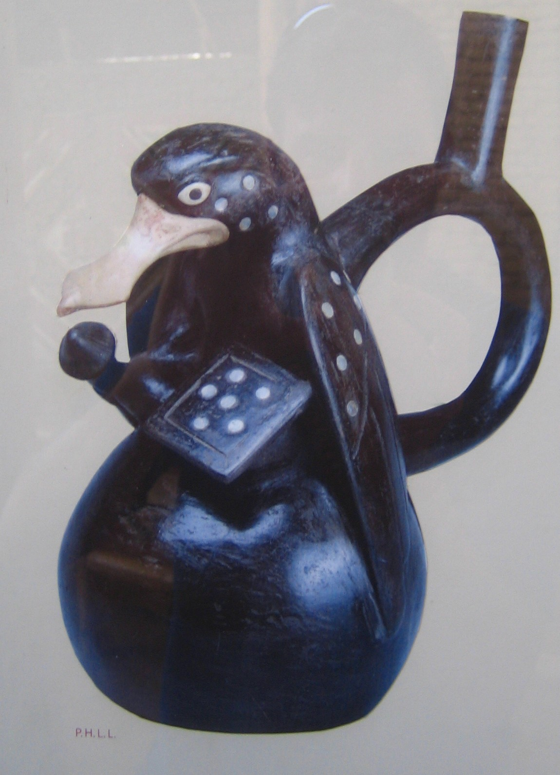 Moche pottery - a warrior duck.